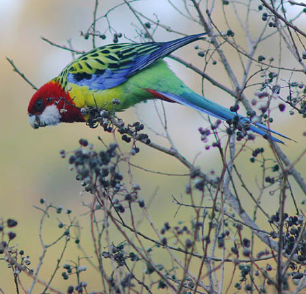 Eastern Rosella (Platycercus eximius). Cheltenham, NSW, Australia. 29 August 2005.